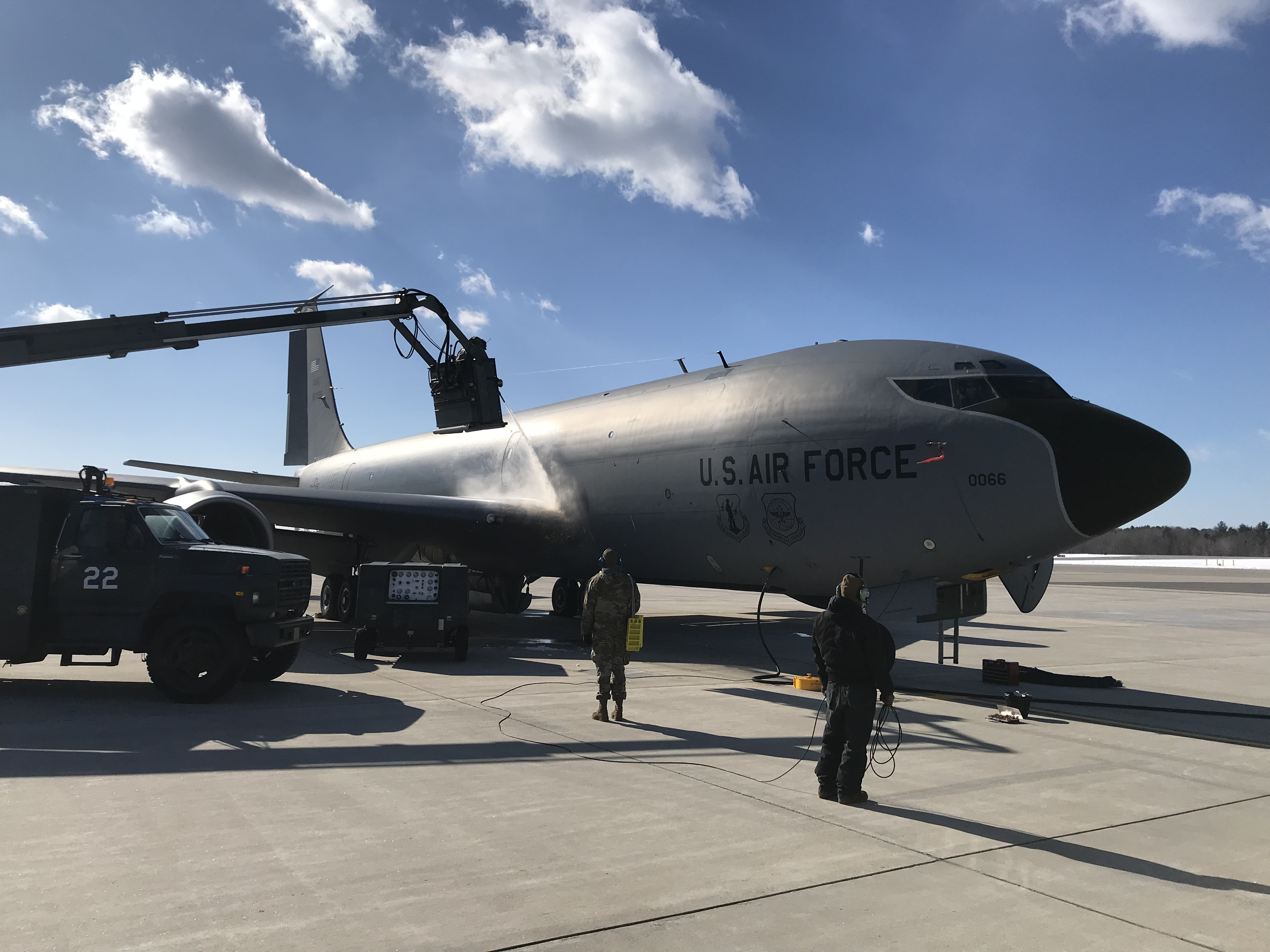 New Hampshire Air National Guard Crew Chiefs with the 157th Aircraft Maintenance Squadron, de-ice a KC-135 Stratotanker assigned to the 157th Air Refueling Wing at Pease Air National Guard Base, N.H., March 6, 2019. The 157 ARW is divesting all of its KC-135s by March 24, 2019, in order to prepare for the arrival of the new KC-46A tanker later in the year.